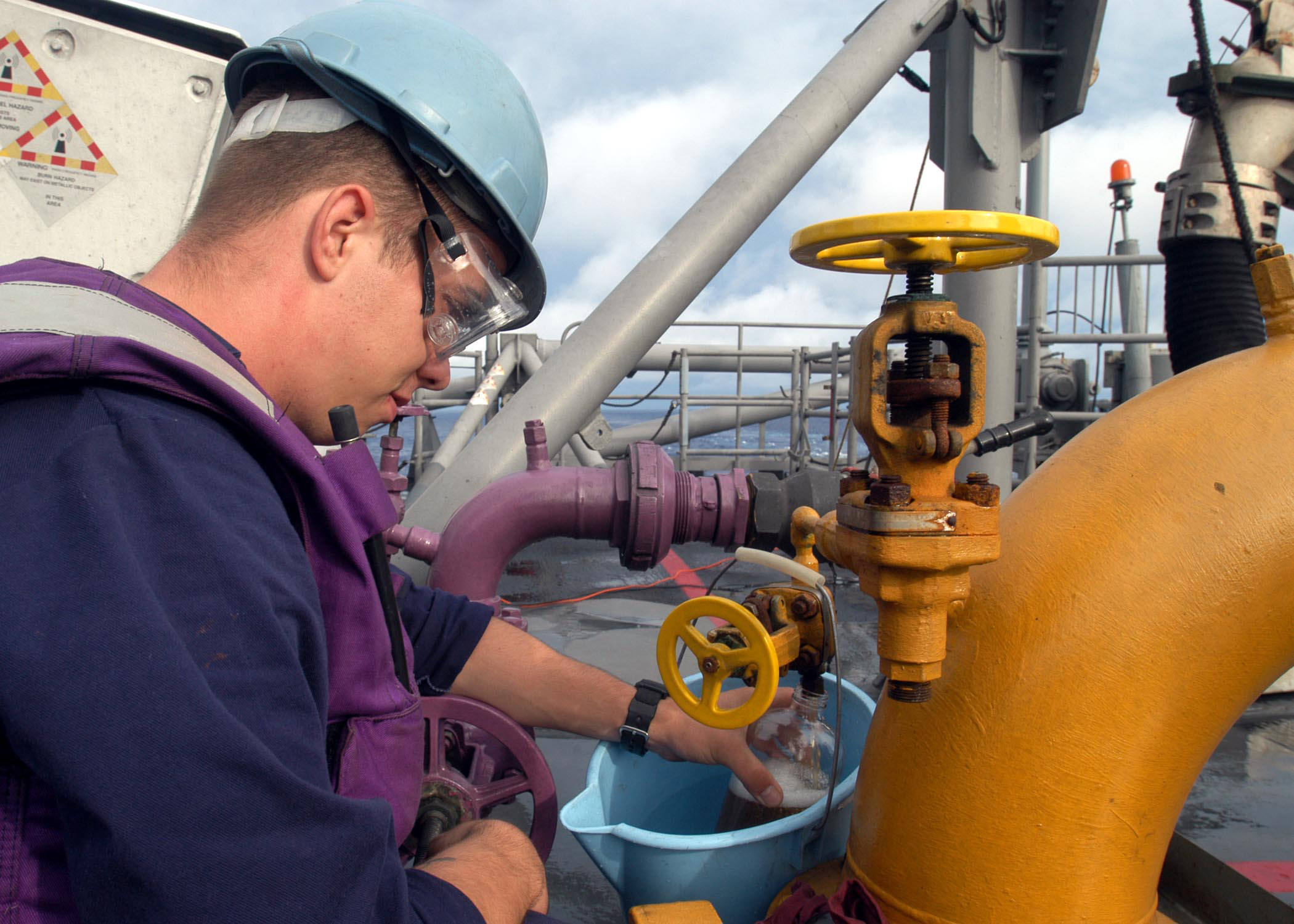 Philippine Sea (Jun. 04, 2003) -- Gas Turbine System Technician 3rd Class Clayton Wheeler collects the first of three samples from the diesel fuel marine (DFM). The DFM fuels the two 40,000 HP gas turbine engines for the guided missile frigate USS Ingraham (FFG 61). Samples are collected at the beginning of the refueling to ensure the DFM meets quality control standards. The ships are part of the USS Carl Vinson (CVN 70) Strike Group on deployment in the Western Pacific Ocean. U.S. Navy Photo by Photographer's Mate 2nd Class Jeremie Kerns. (RELEASED)